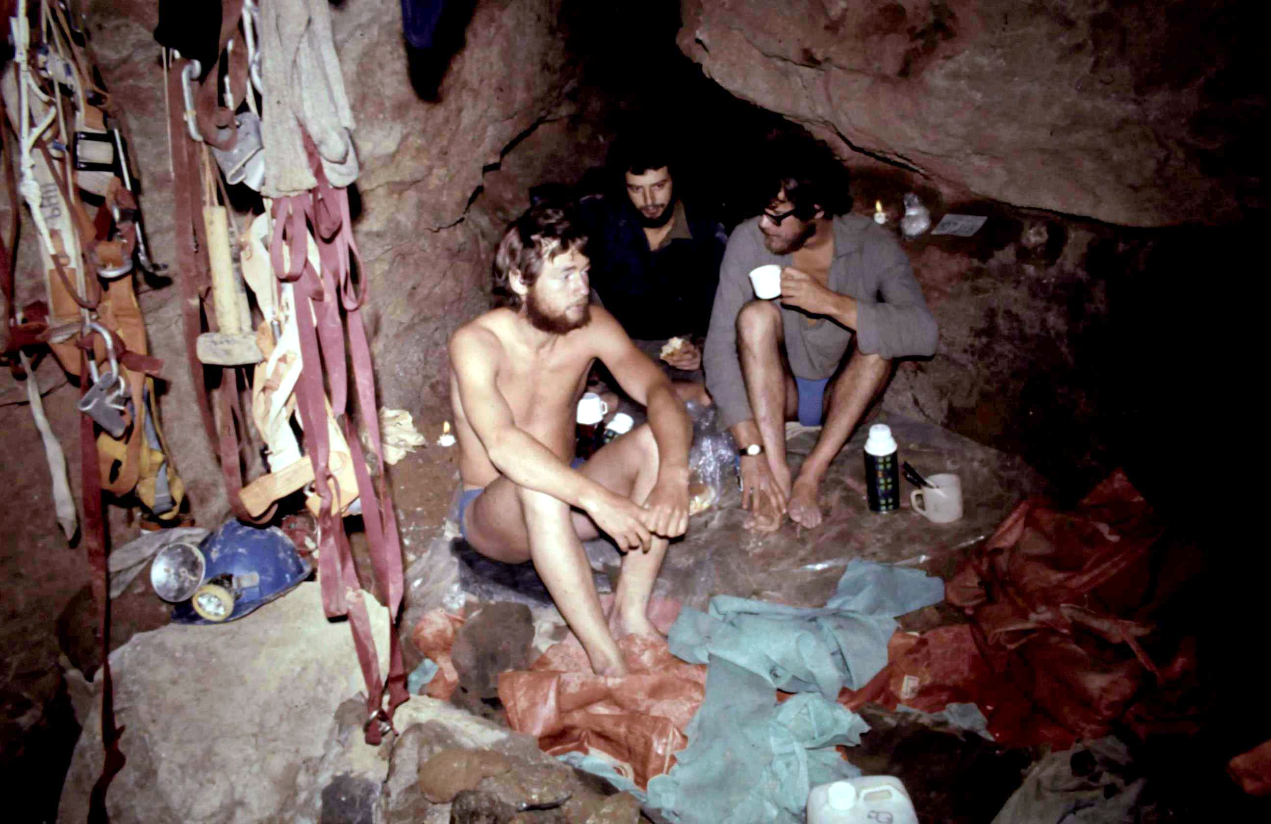 Underground camp during the original explorations of Haiton del Guarataro in April 1973. The camp site was on a ledge in the entrance shaft complex at the -223 metre level.